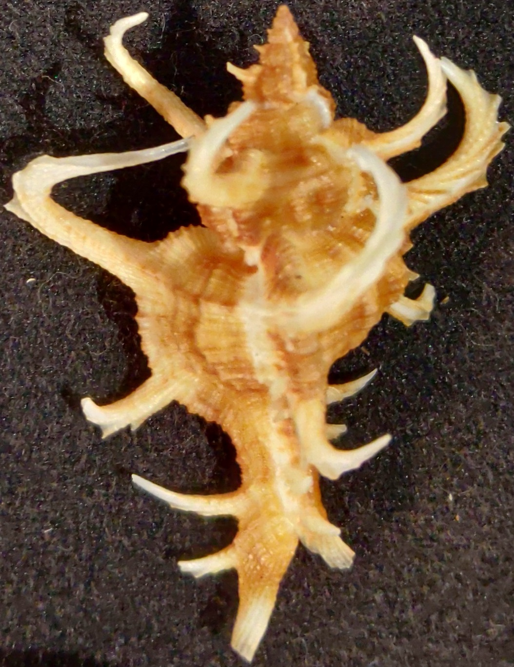 Triplex Axicornis Kawamurai (var.) Back